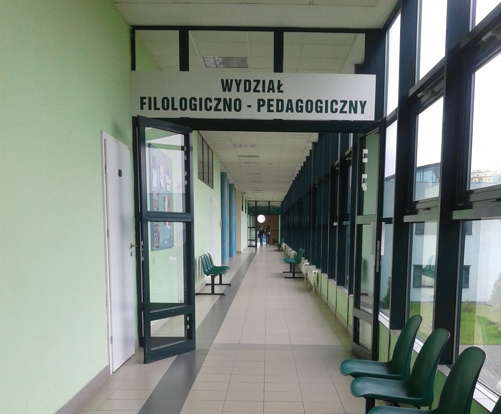 Entrance to the Faculty of Philology and Pedagogics of Kazimierz Pułaski Technical University of Radom (Faculty of Economics' building)